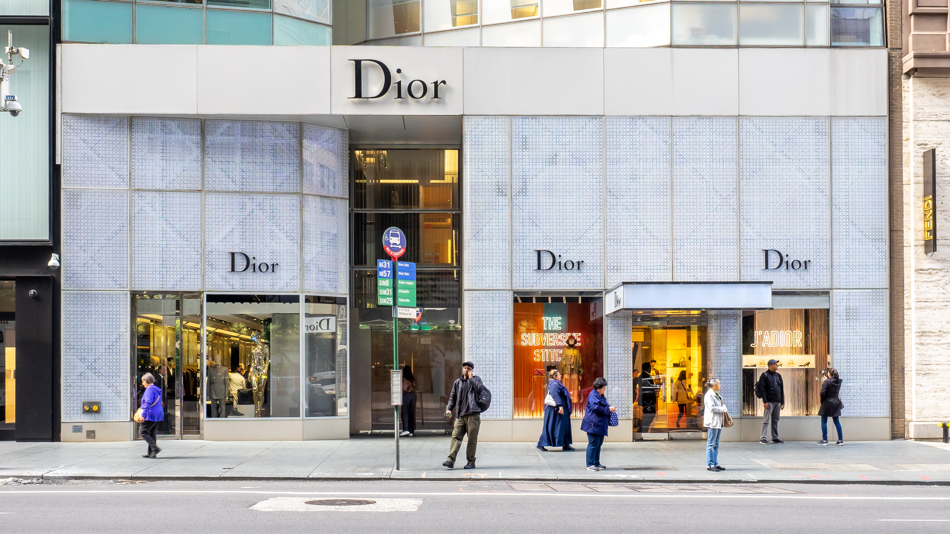 Midtown, NYC